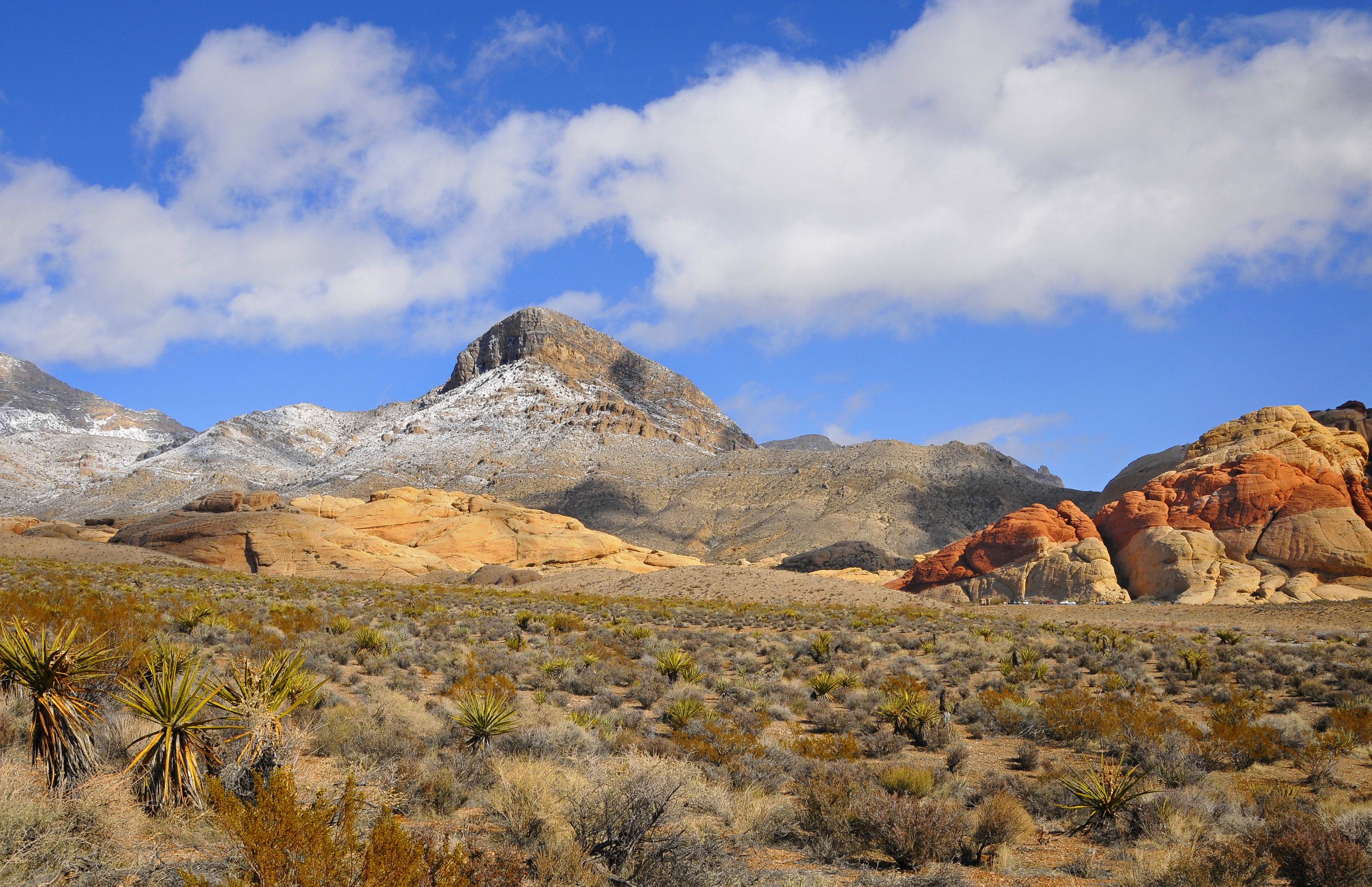 View of Turtlehead Peak and Calico Hills in the Red Rock Canyon National Conservation Area, Clark County, Nevada